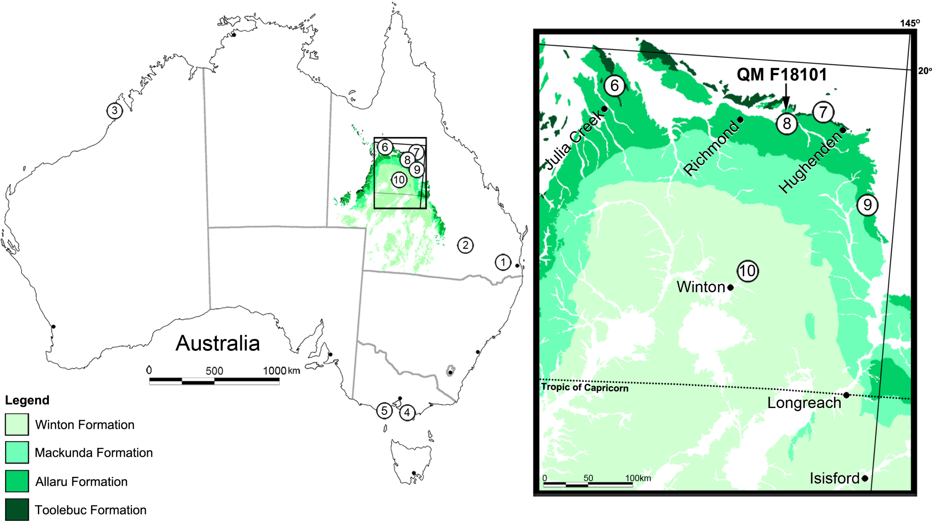 Locality map for Australian eurypodan thyreophoran fossils. 1, Stegosaurian? footprint (QM F5701), Walloon Coal Measures, Balgowan Colliery, Balgowan (Bajocian–Bathonian); 2, Minmi paravertebra holotype (QM F10329) (Molnar, 1980), Minmi Member, Bungil Formation (Valanginian–Barremian); 3, Thyreophoran trackways, Broome Sandstone, Dampier Peninsula, Western Australia (Valanginian–Barremian); 4, Ankylosauria indet. (see Barrett et al., 2010) ‘Flat Rocks’ Wonthaggi Formation (upper Hauterivian–Albian); 5, NMV P216739, ‘Lake Copco–Dinosaur Cove’ Eumeralla Formation (middle upper Aptian to lower middle Albian) (Barrett et al., 2010); 6, QM F33286; 7, AM F119849 and AM F35259; 8, Kunbarrasaurus ieversi gen. et sp. nov. (formerly Minmi sp.) (QM F18101); 9, QM F33565 and QM F33566; 10, QM F44324-28. Legend: Dark Green, Toolebuc Formation (late middle–early late Albian); Green, Allaru Formation (upper Albian–(?)lower Cenomanian); Light green, Mackunda Formation (upper Albian–lower Cenomanian); Lightest green, Winton Formation (late Albian–early Turonian).